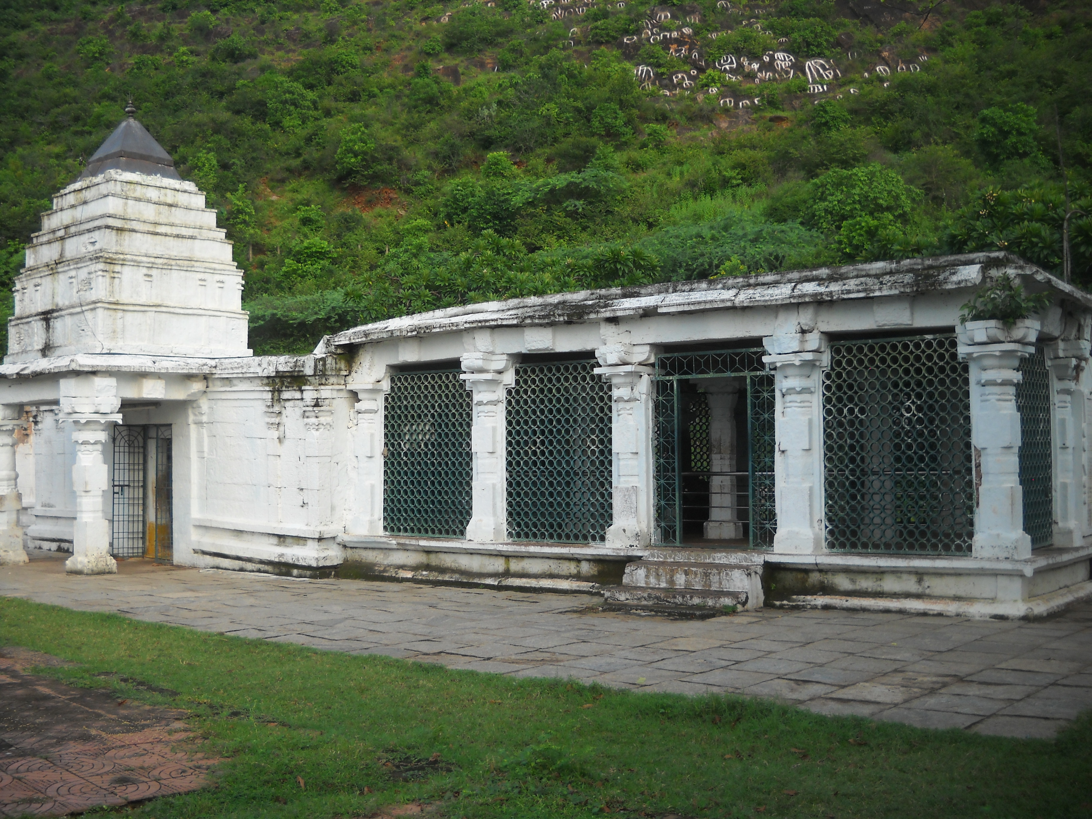 S-AP-456 Dharmalingeswara temple